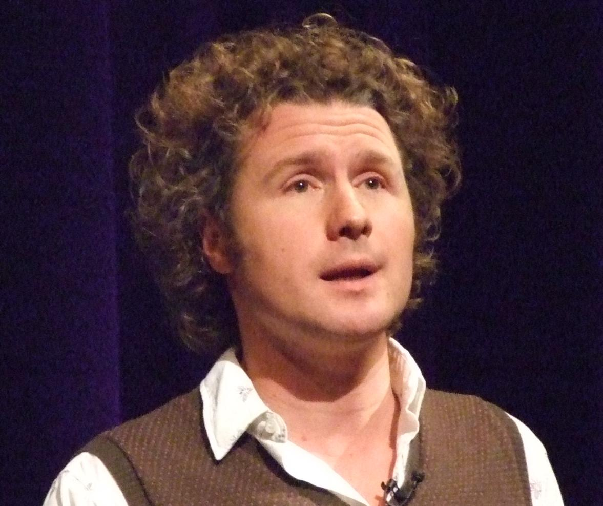 Ben Goldacre speaking at TAM London October 2009